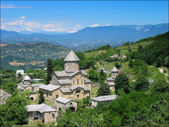 Gelati Monastery